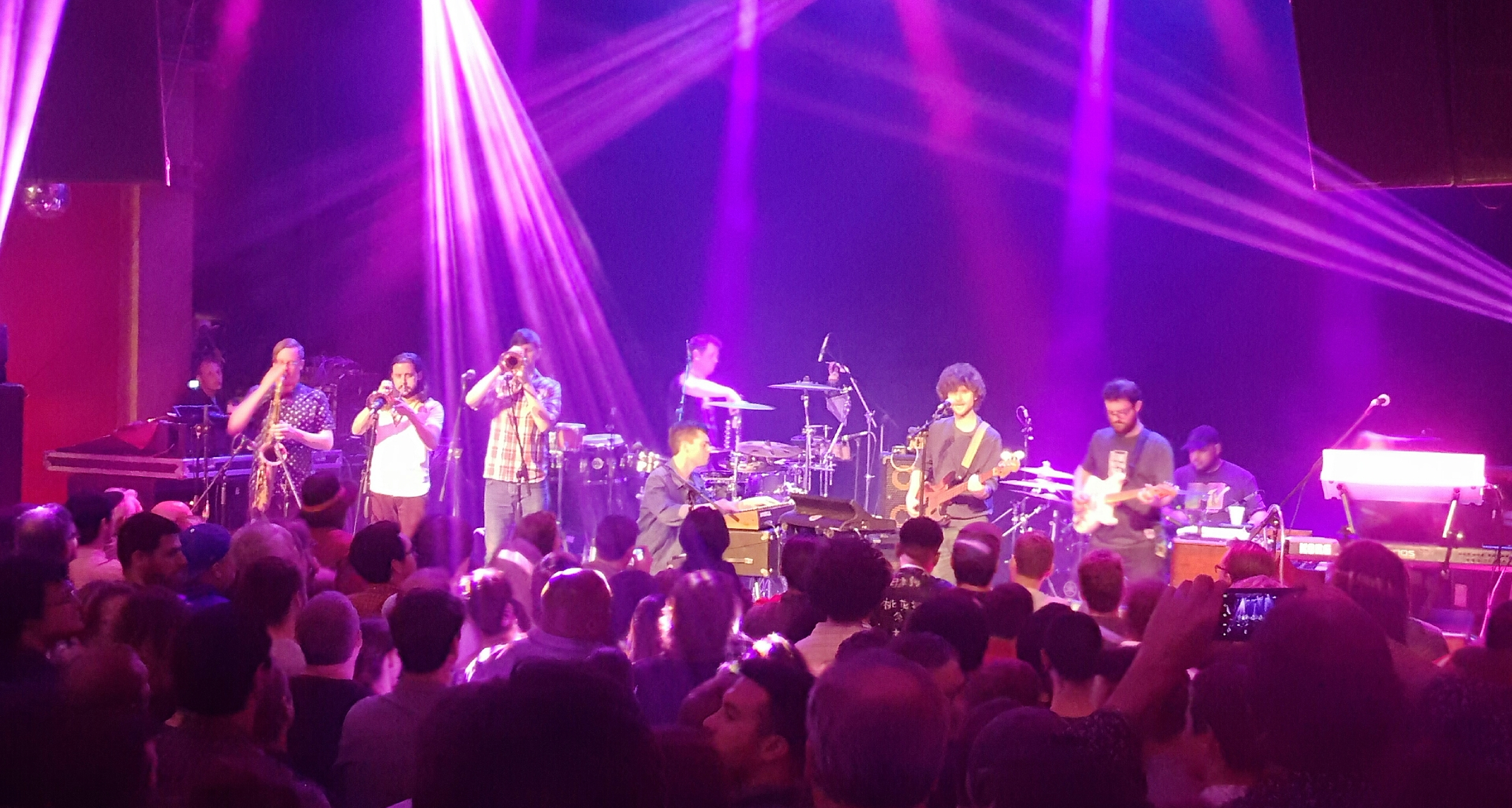 Snarky Puppy performing at the Vogue Theatre on May 13, 2016.